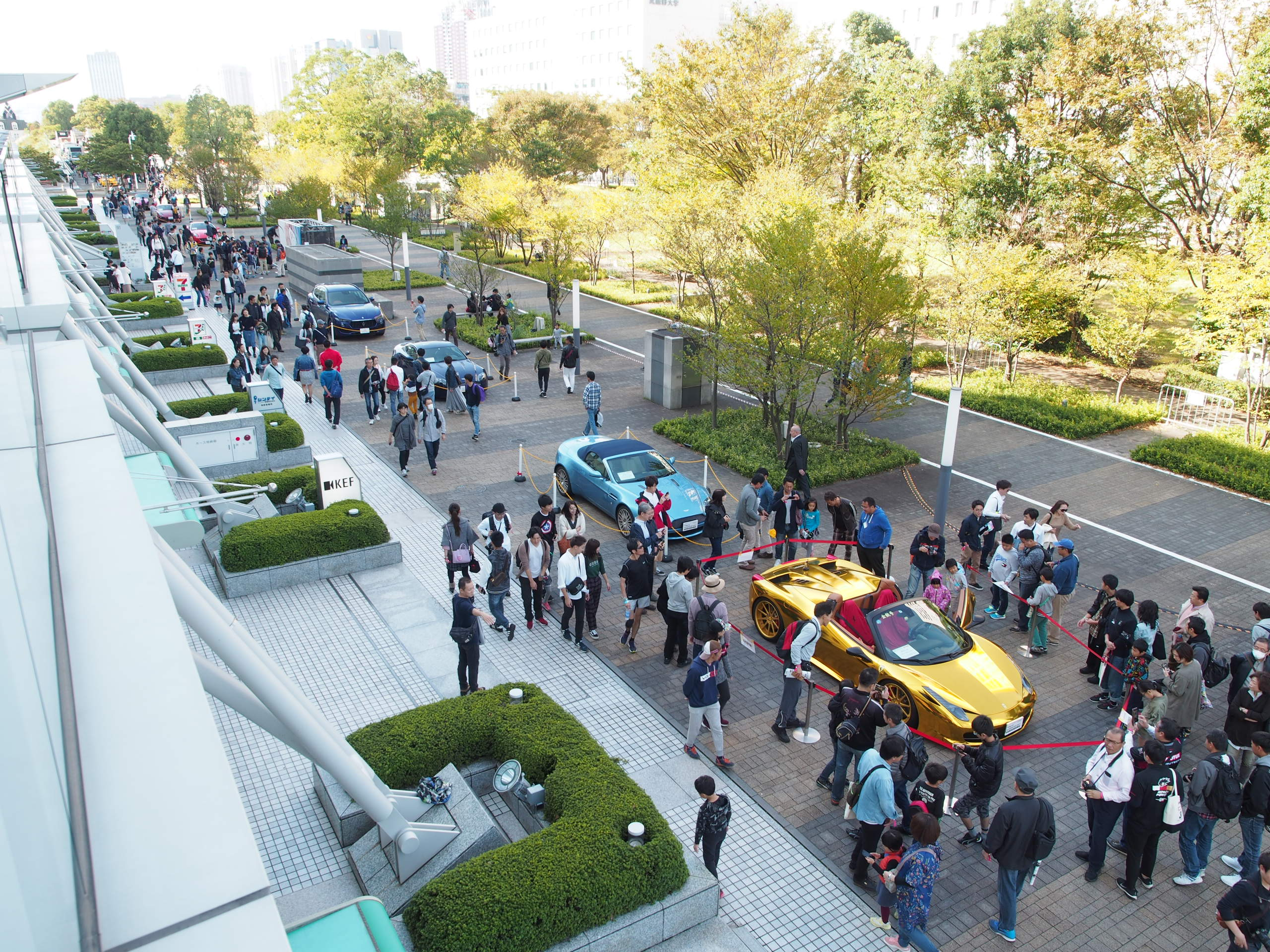 Exhibit of the Japan SuperCar Association at the Tokyo Motor Show 2019